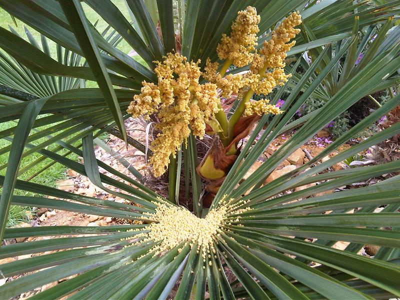 Chinese fan palm or fountain palm (Livistona chinensis) with inflorescence and fallen pollen, in Kew Gardens, England.